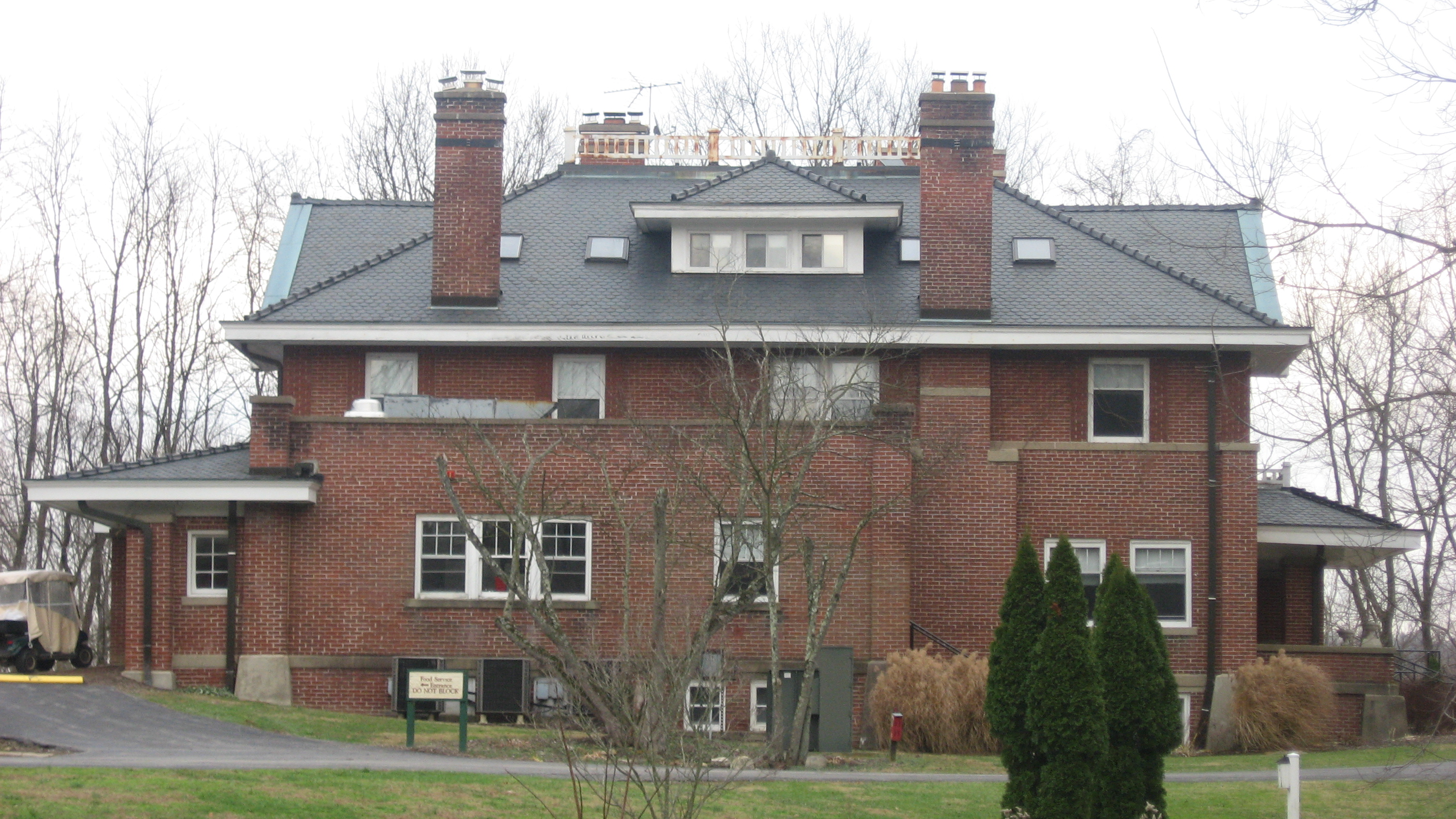 Front of the house at the Bradford Estate, located at 5040 N. State Road 67 north of Martinsville in Clay Township, Morgan County, Indiana, United States. Built in 1912, it is listed on the National Register of Historic Places.